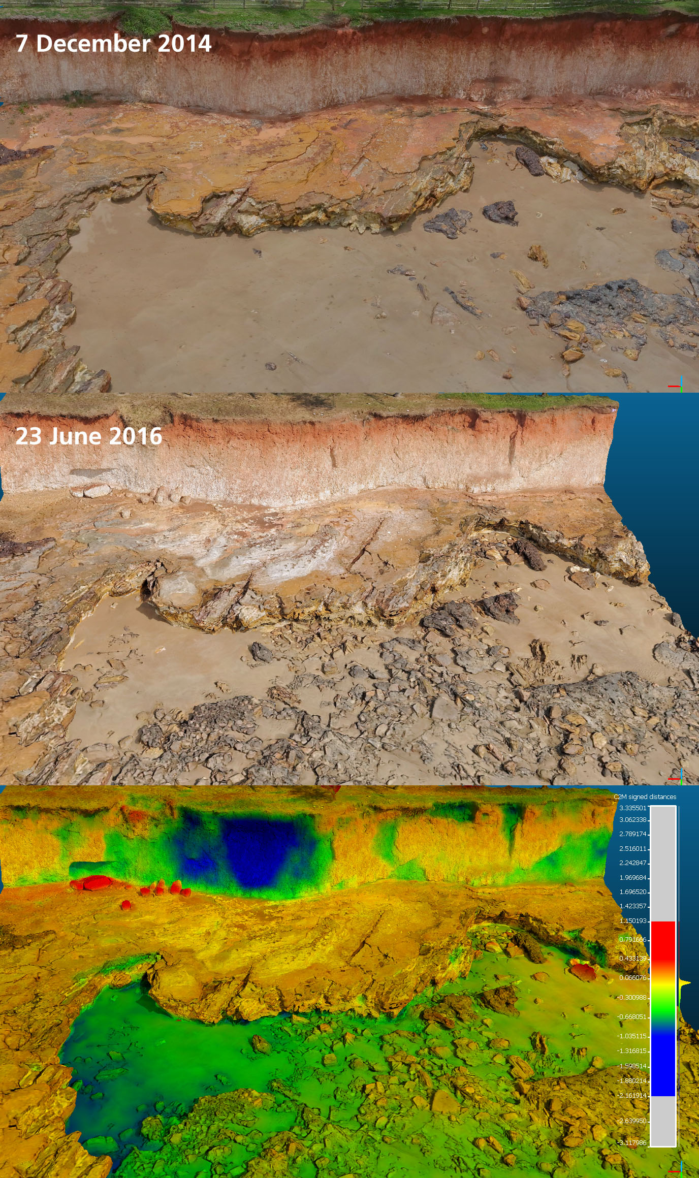 Quantifying coastal erosion along the foreshore in Nightcliff